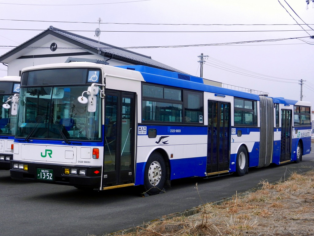 JR bus Kanto (Shirakawa branch) Volvo KC-B10M